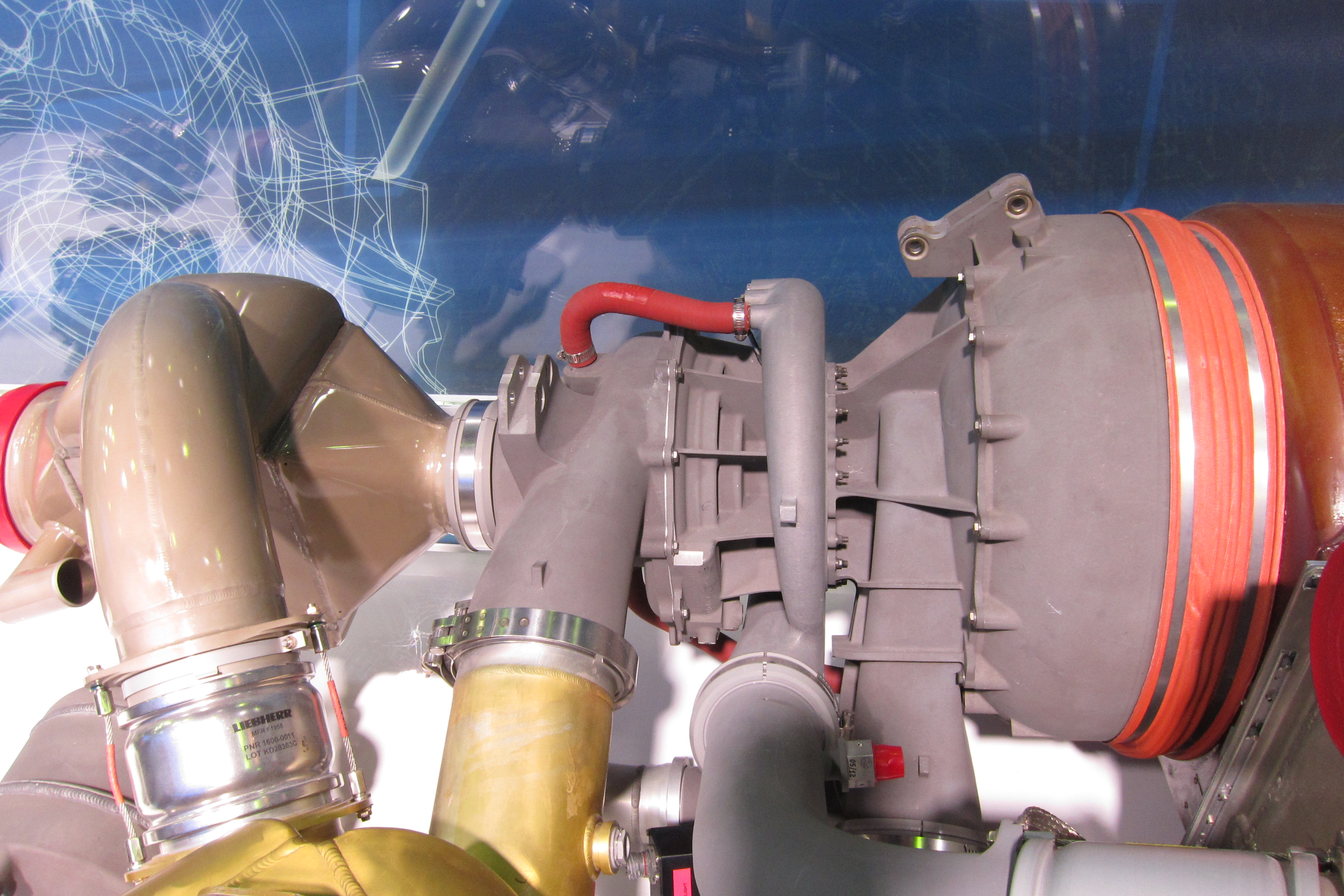 The air conditioning pack of the upcoming Comac C919, manufactured (and here displayed at he Paris Air Show 2013) by Liebherr